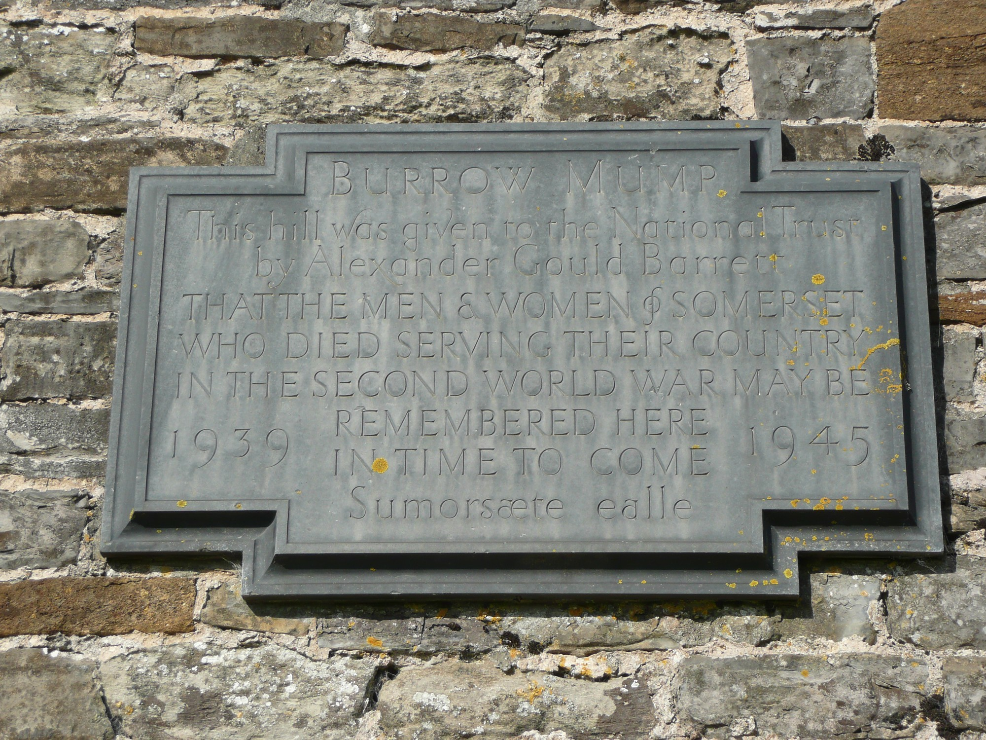 Plaque on St Michael's Chapel on Burrow Mump